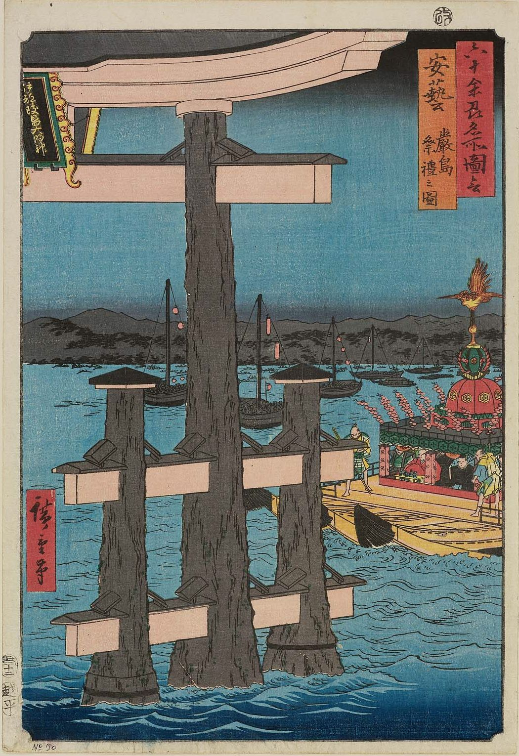 Part of the series Famous Places in the Sixty-odd Provinces, No. 50 (San'yōdō group)